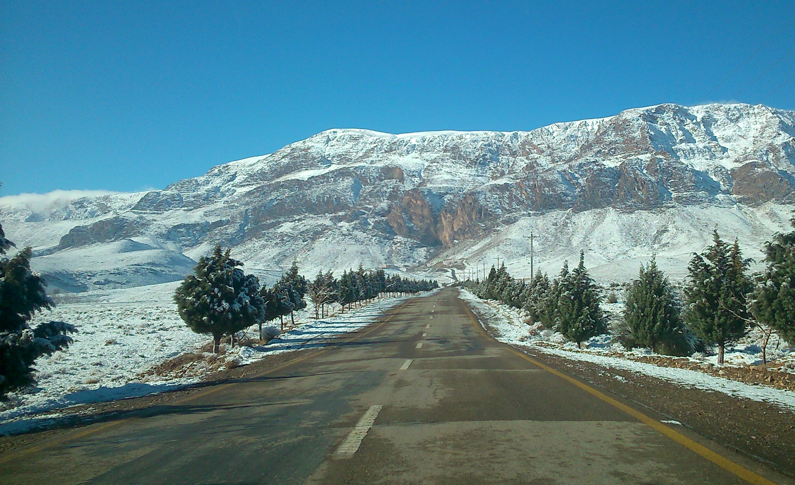 Access to Shah Lolak waterfall